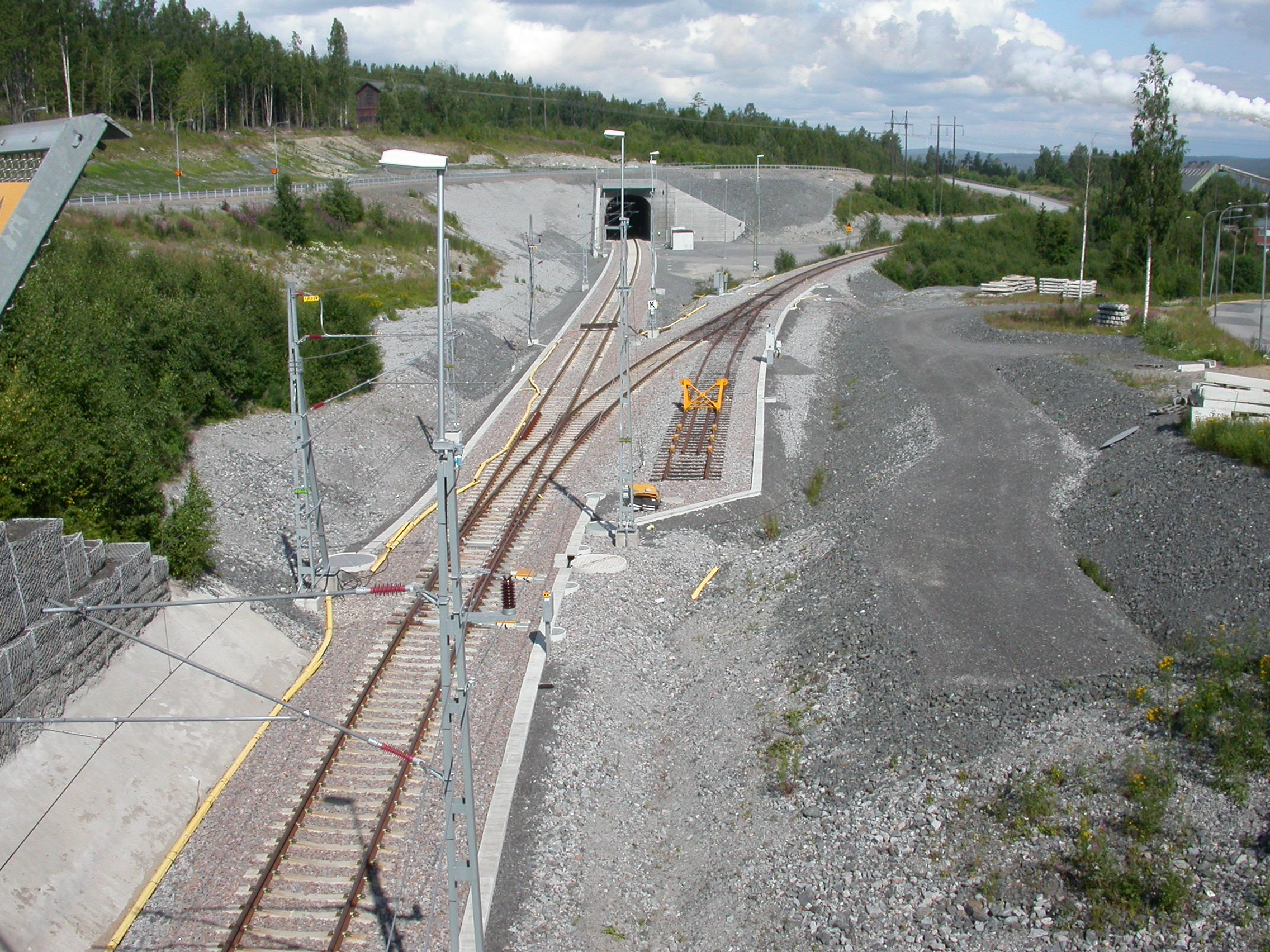 South entrance of railway tunnel through Murberget north of Härnösand with the old line branching to the right.